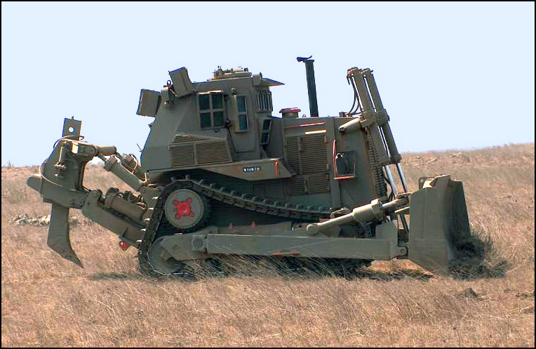 IDF Caterpillar D9L armored bulldozer